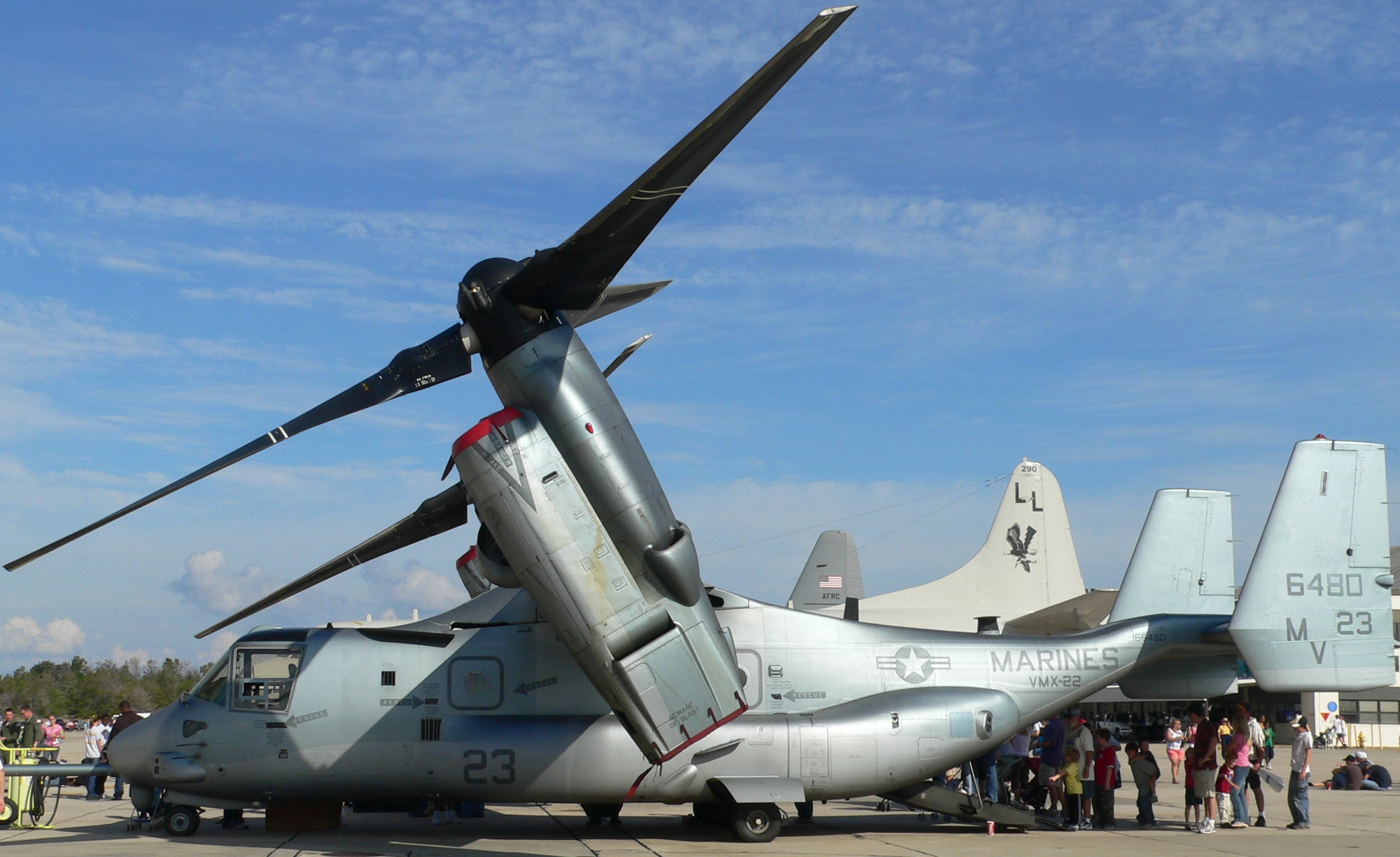 V-22 Osprey of Marine Squadron VMX-22 on static display at NAS Pensacola.